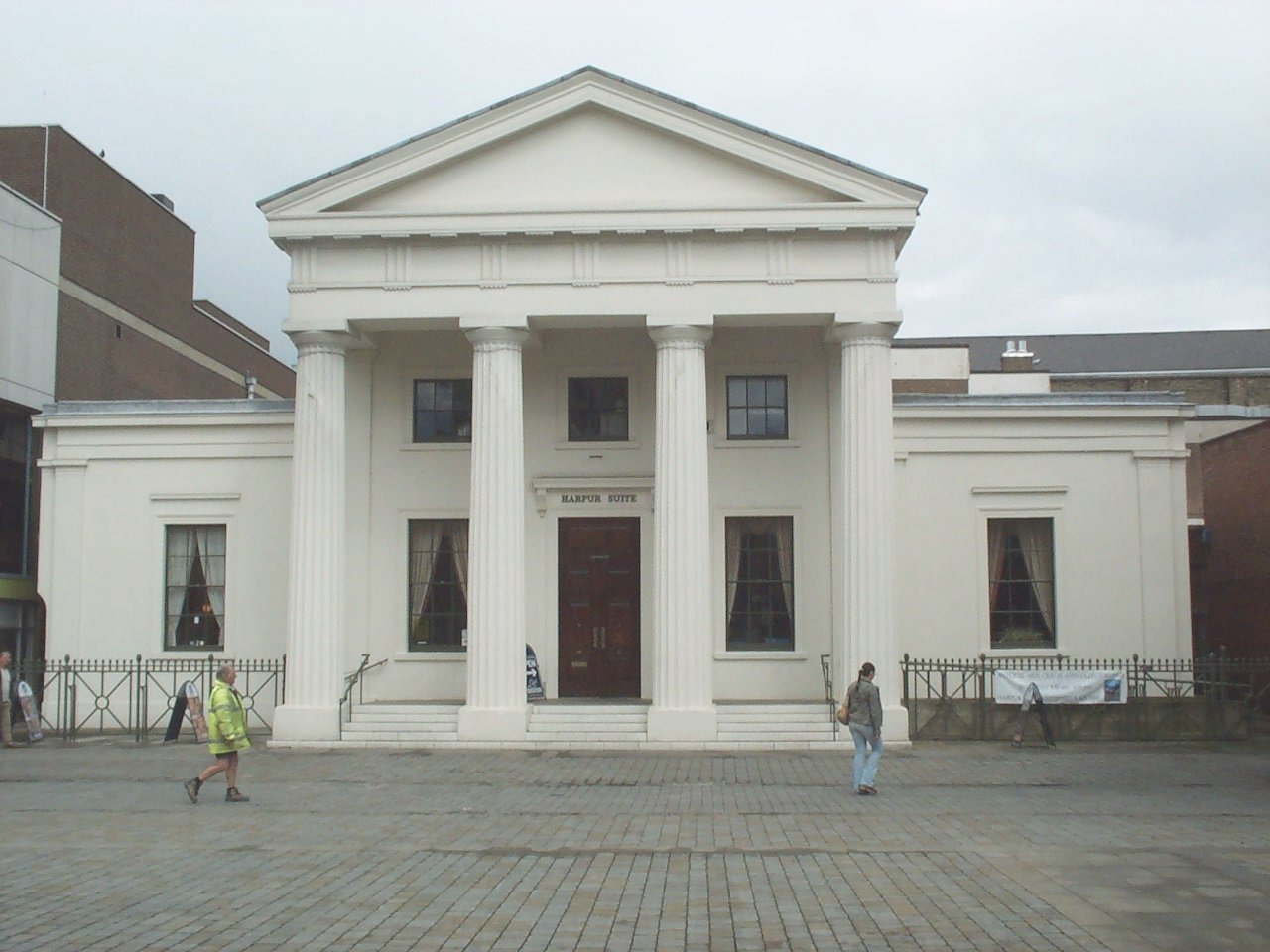 The Harpur Suite, Bedford. Not nearly as grand as the facade would have you believe. Frequently used for book sales but not much used as a theatre because of the poor folding seating.